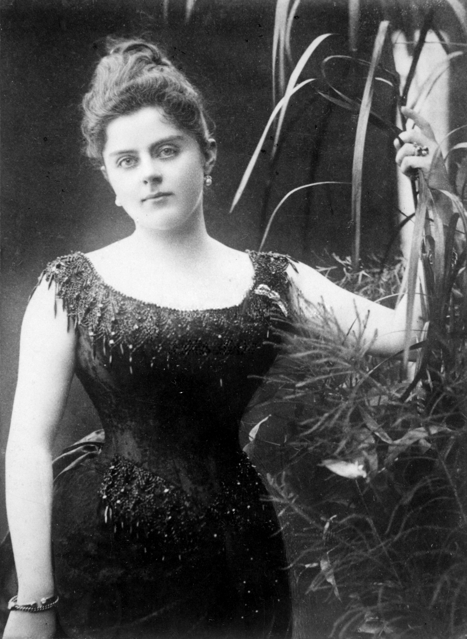 Baroness Mary Vetsera died 1889.